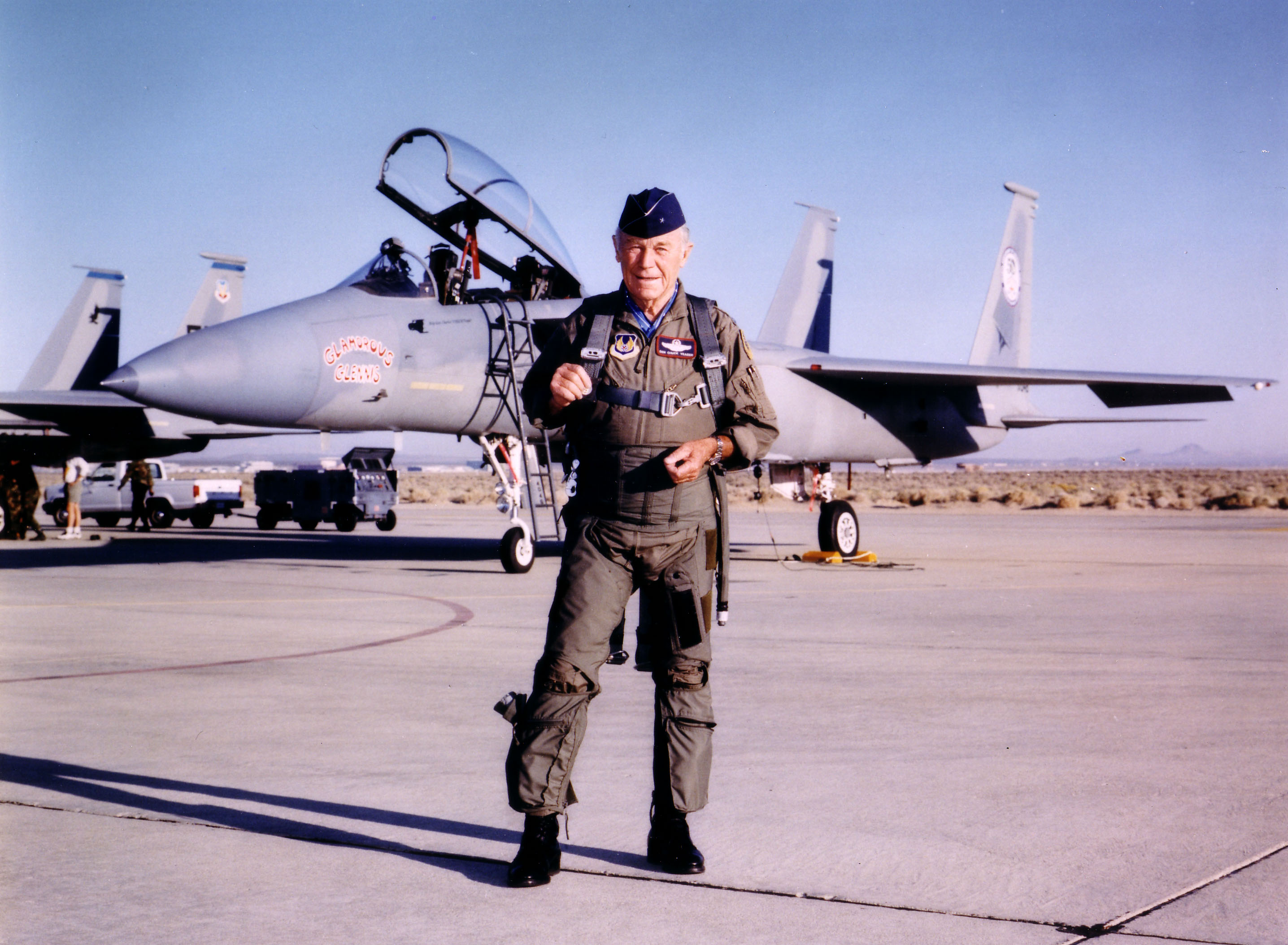 October 1997 -- Brigadier General Charles E. "Chuck" Yeager standing in front of his F-15 Eagle on the 50th Anniversary of his becoming the first man to break the speed of sound. (U.S. Air Force photo)